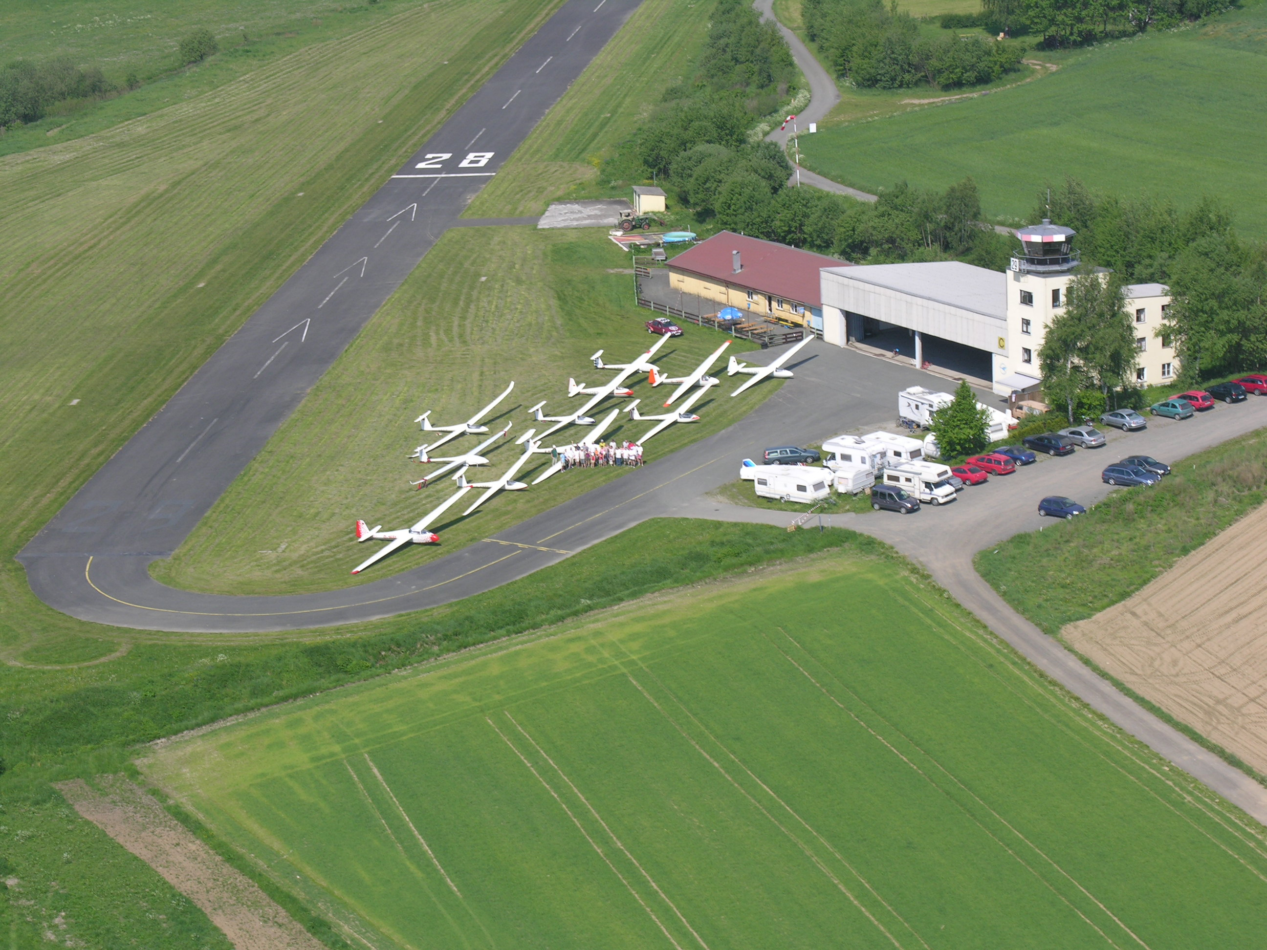 Final on Runway 28